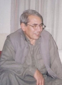 Kabir Stori, the greatest patriotic poet.